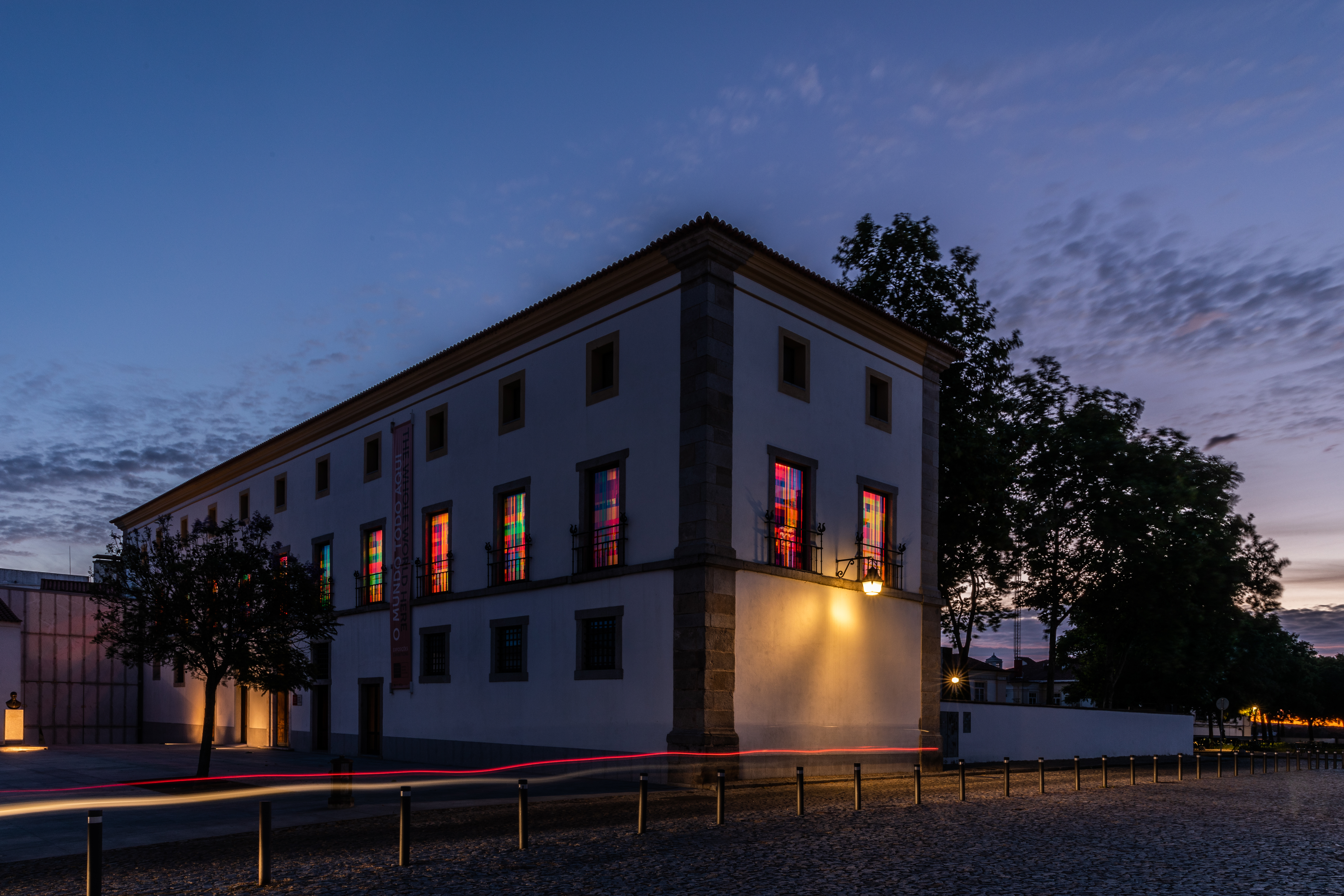 exterior view at dusk of the Eugénio de Almeida Foundation in Évora, Portugal